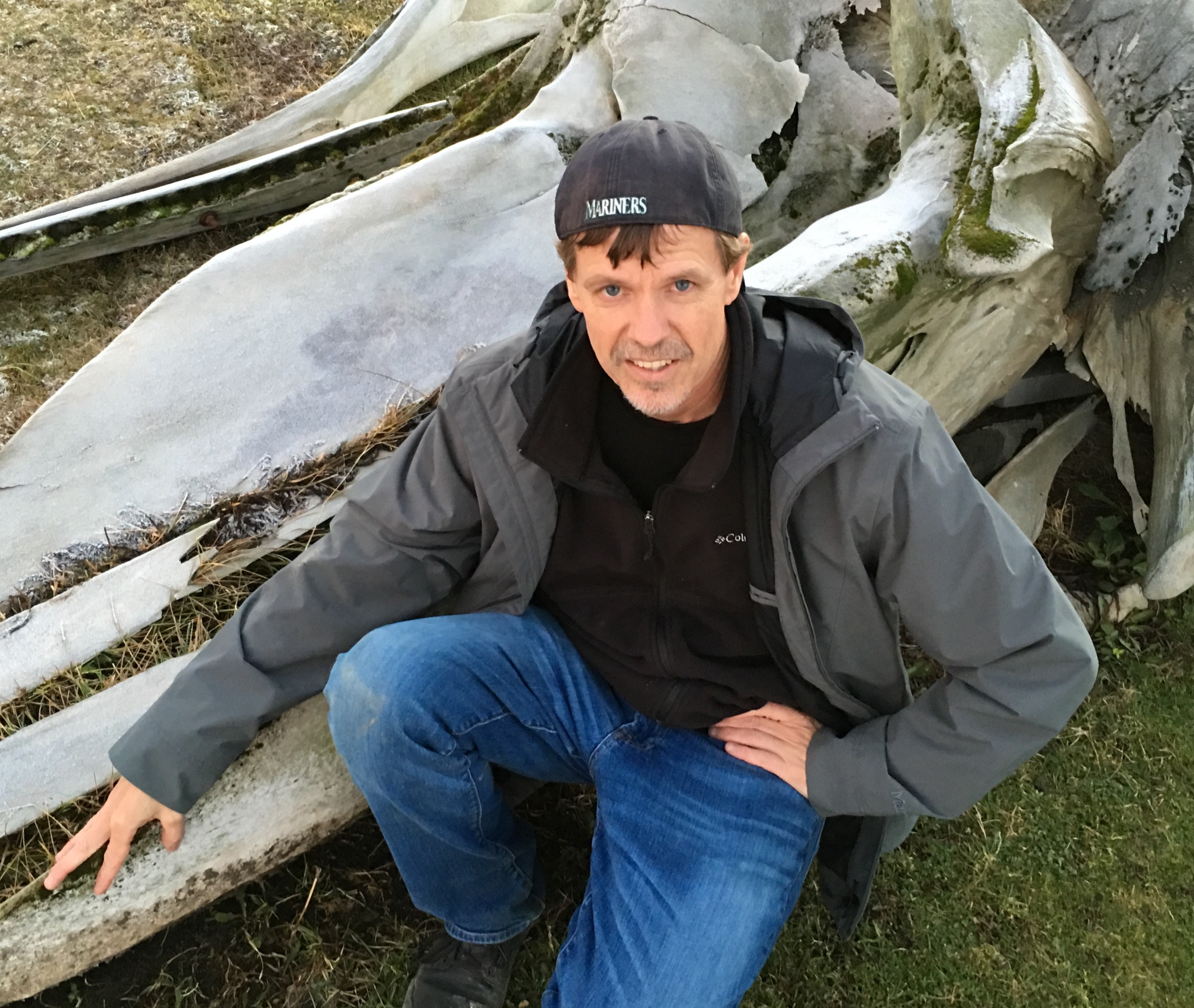 Conservationist and filmmaker Michael Harris with right whale skeleton in Tierra del Fuego, Argentina.